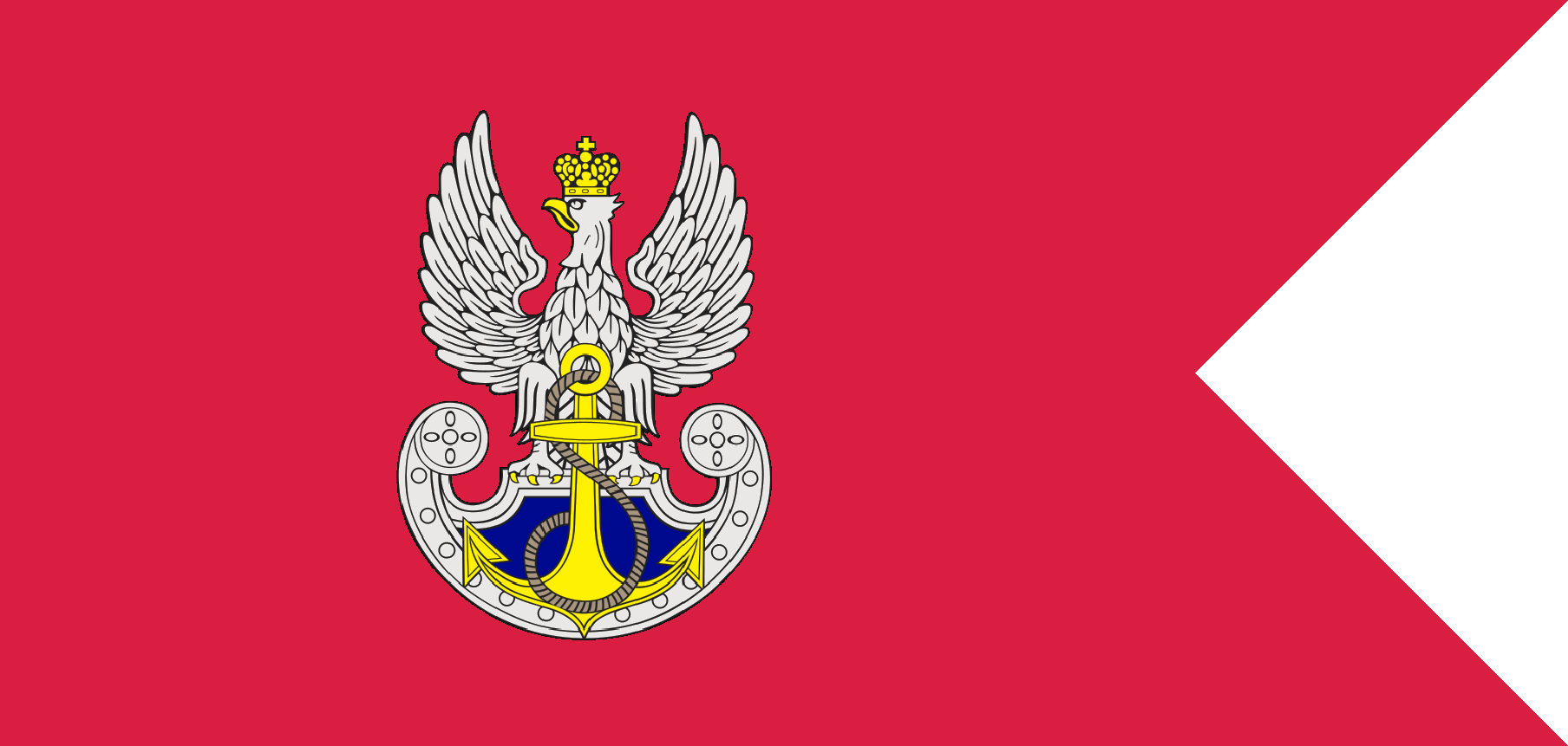 Polish Navy flag